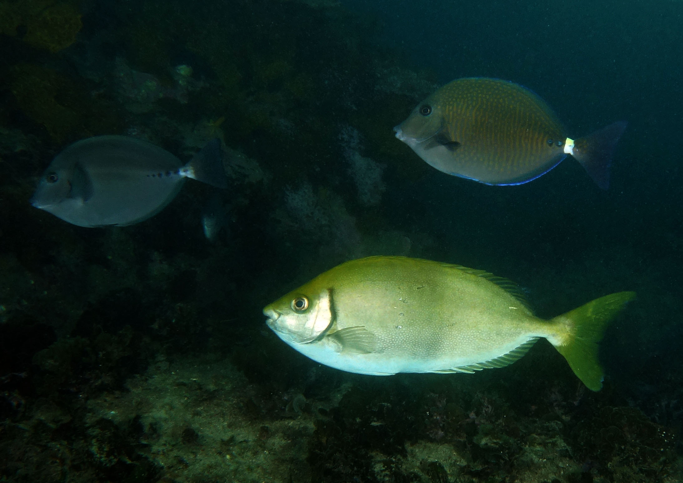 Siganus fuscescens, Shelly Beach Australia